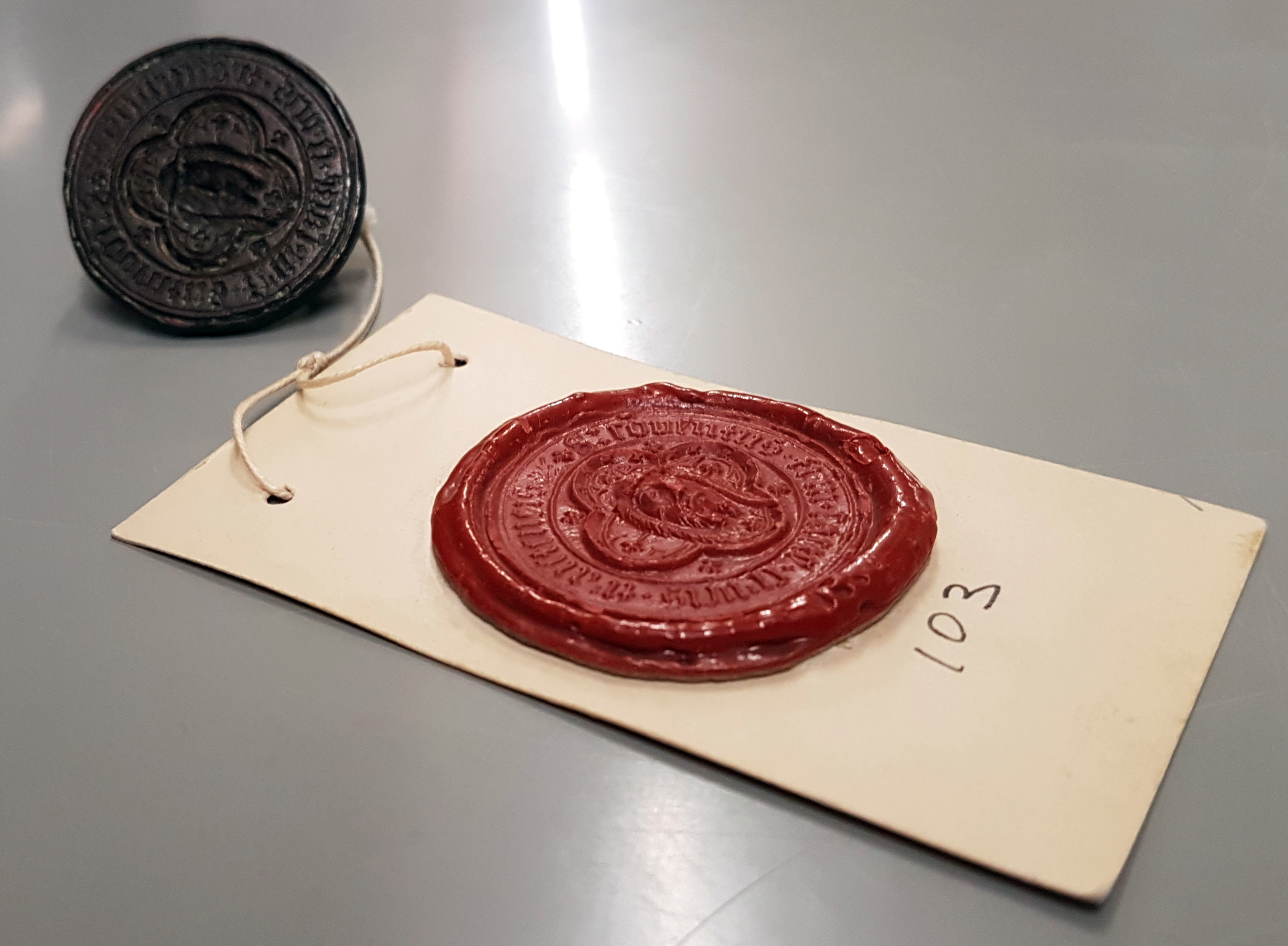 Seal and seal matrix of the former Monastery of the Croziers or Crutched Friars (1438-1796) in Maastricht, the Netherlands. The seal is in the collection of the Kruisherenarchief, part of RHCL in Maastricht. Although not the most important, it is considered the most complete monastery archives in the Netherlands, Belgium and the German Rhineland.